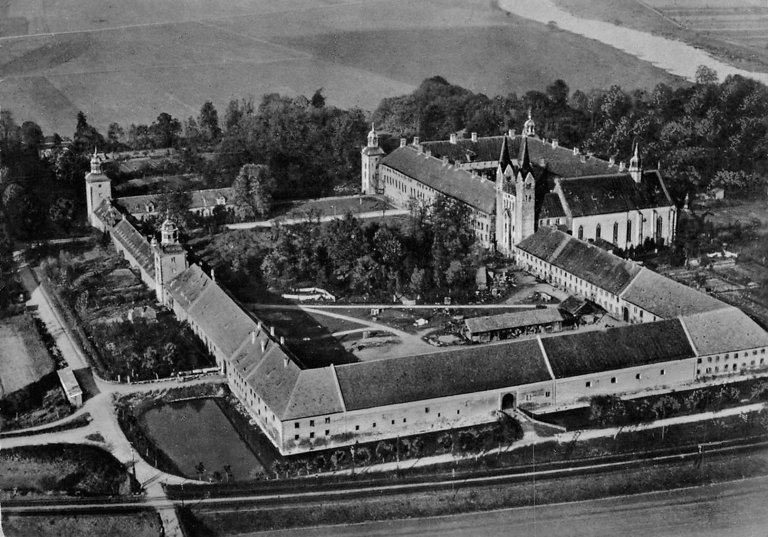 The former Abbey of Corvey near Höxter, c. 1925-1930.